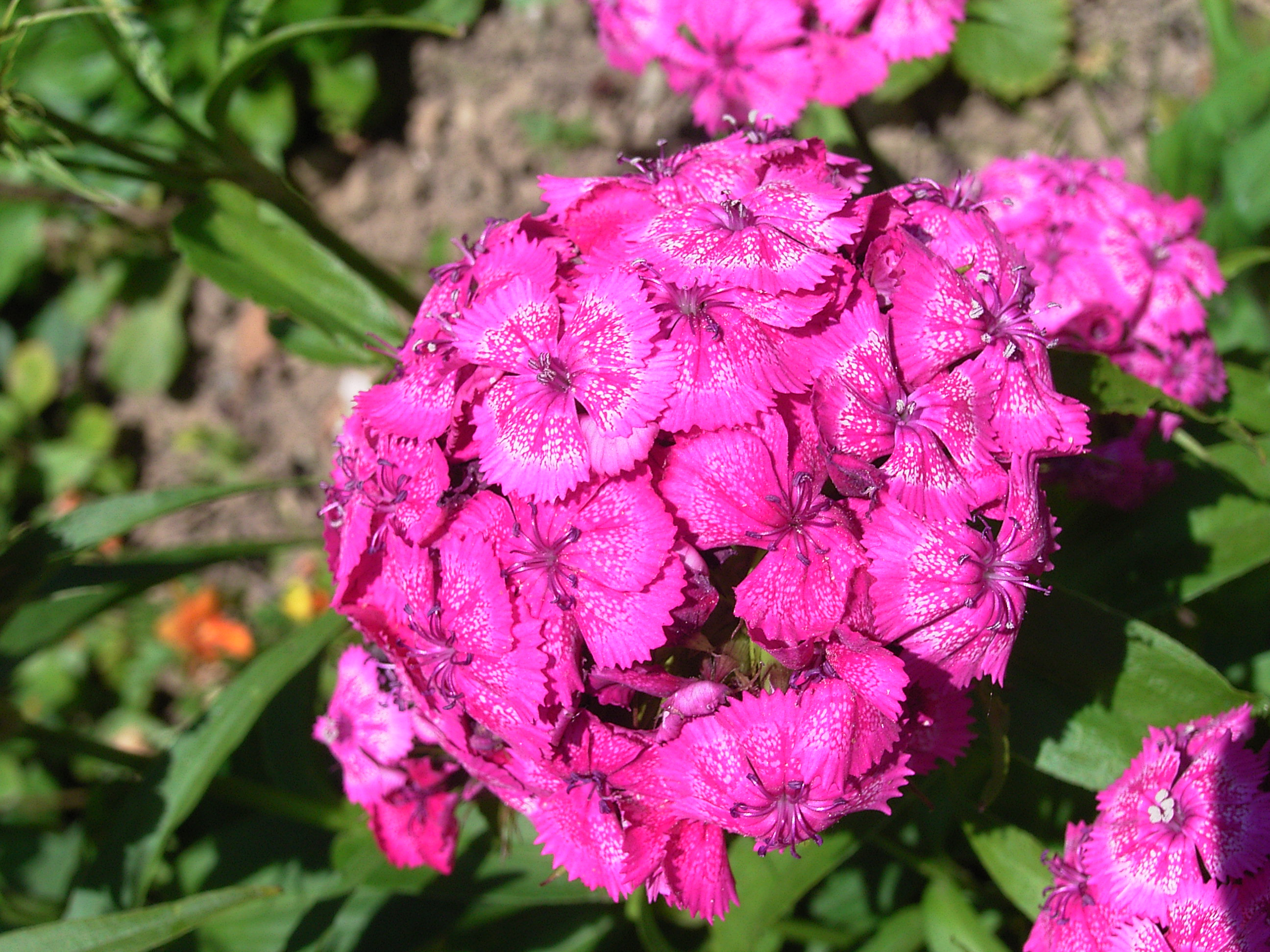 Dianthus barbatus